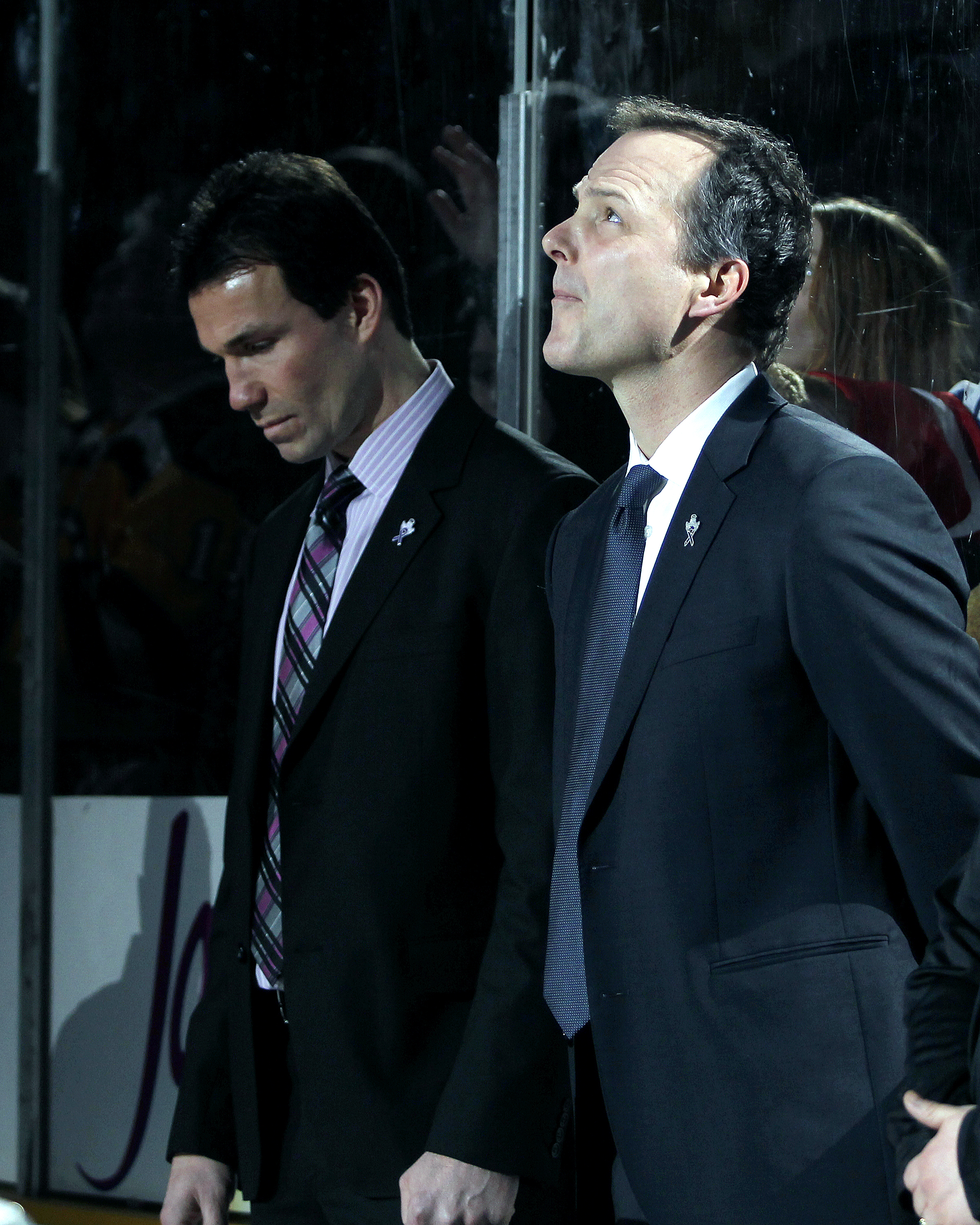 Coach American Hockey League (AHL). 2013 All-Star Skills Competition. Taken on January 27, 2013.